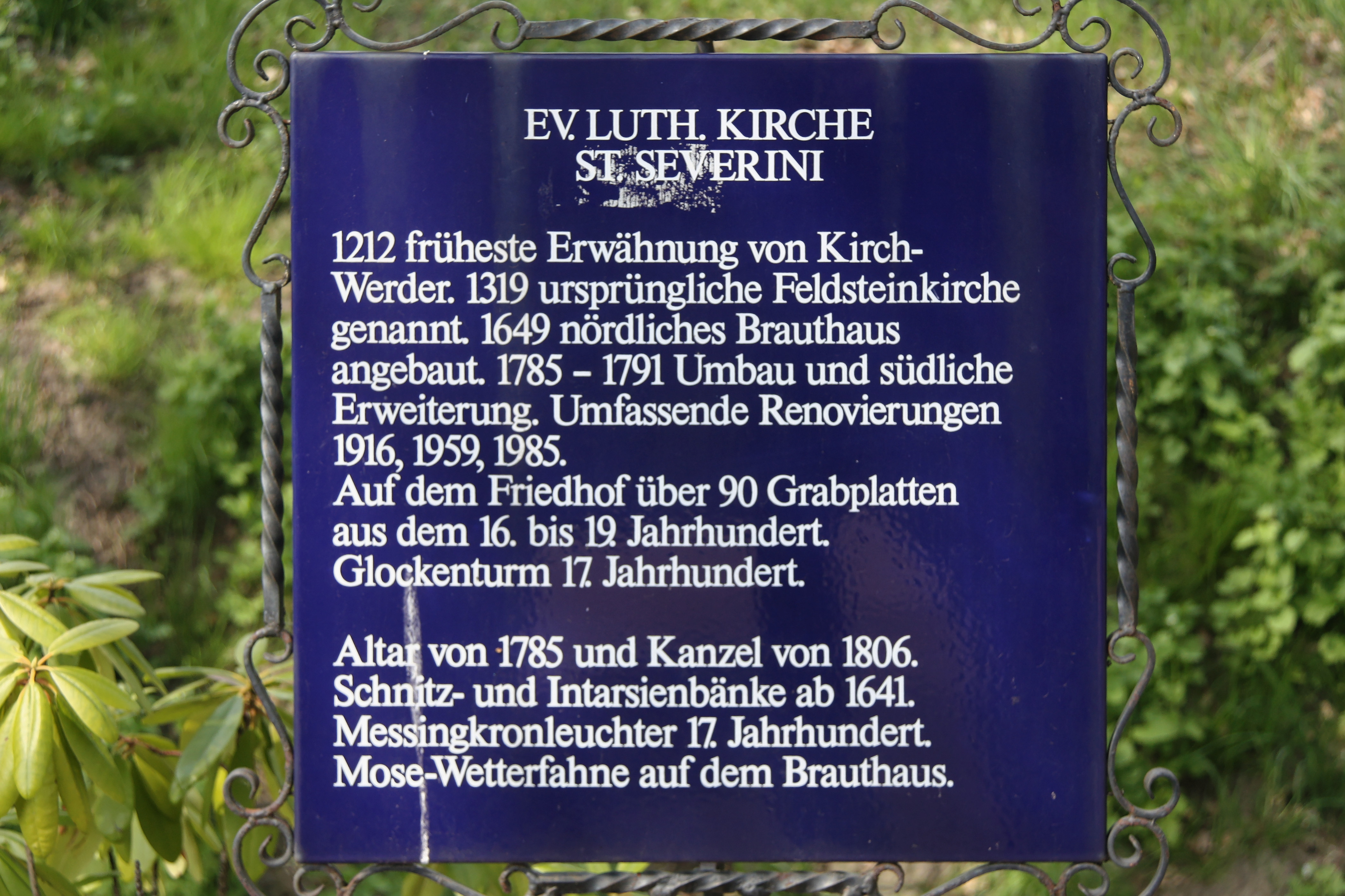 Church St. Severini, Hamburg-Kirchwerder, information plaque